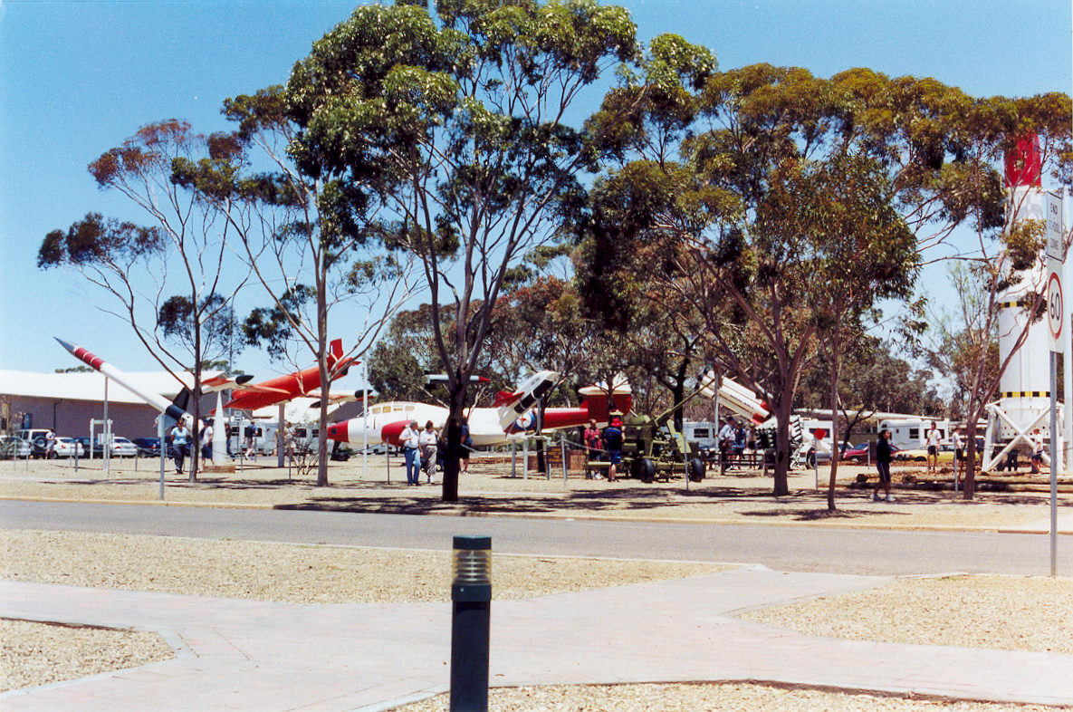 Missile Park Southern section. Scan of a photo taken by Stephen West in December 2002.